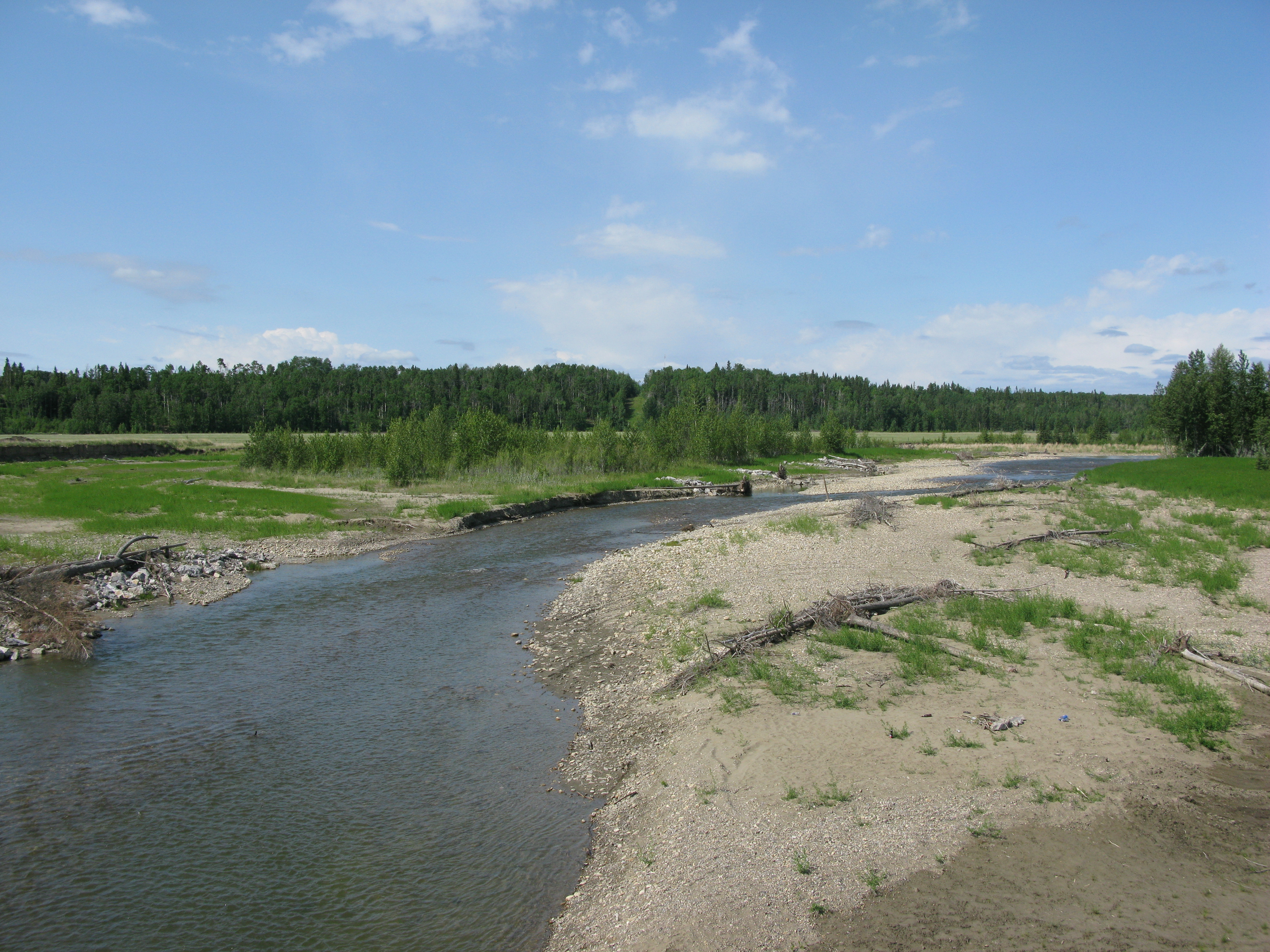 James River in Alberta, Canada